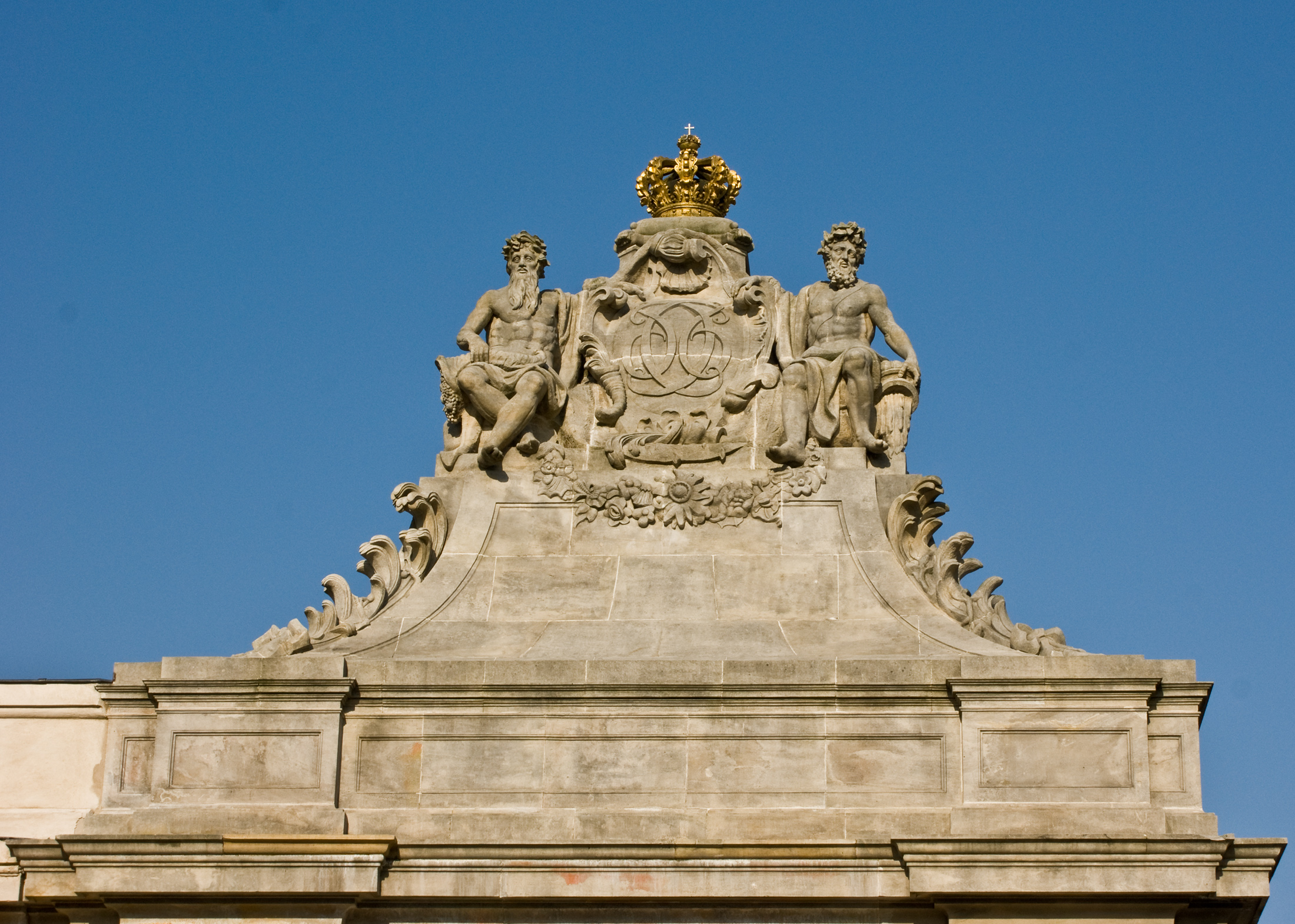 Detail of portal with monogram of Christian VI, Slotsholmen Copenhagen